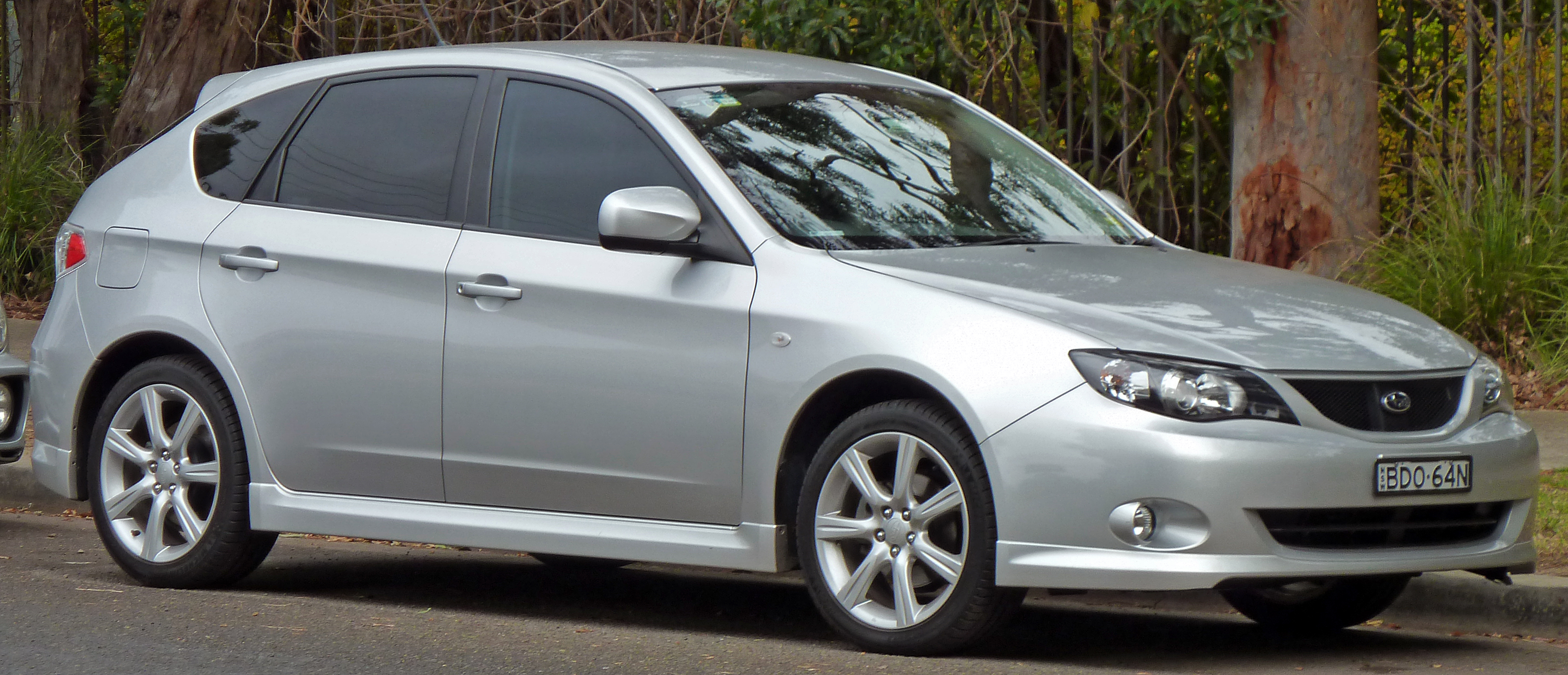 2007 Subaru Impreza (GH7 MY08) RS hatchback. Photographed in Gymea, New South Wales, Australia.